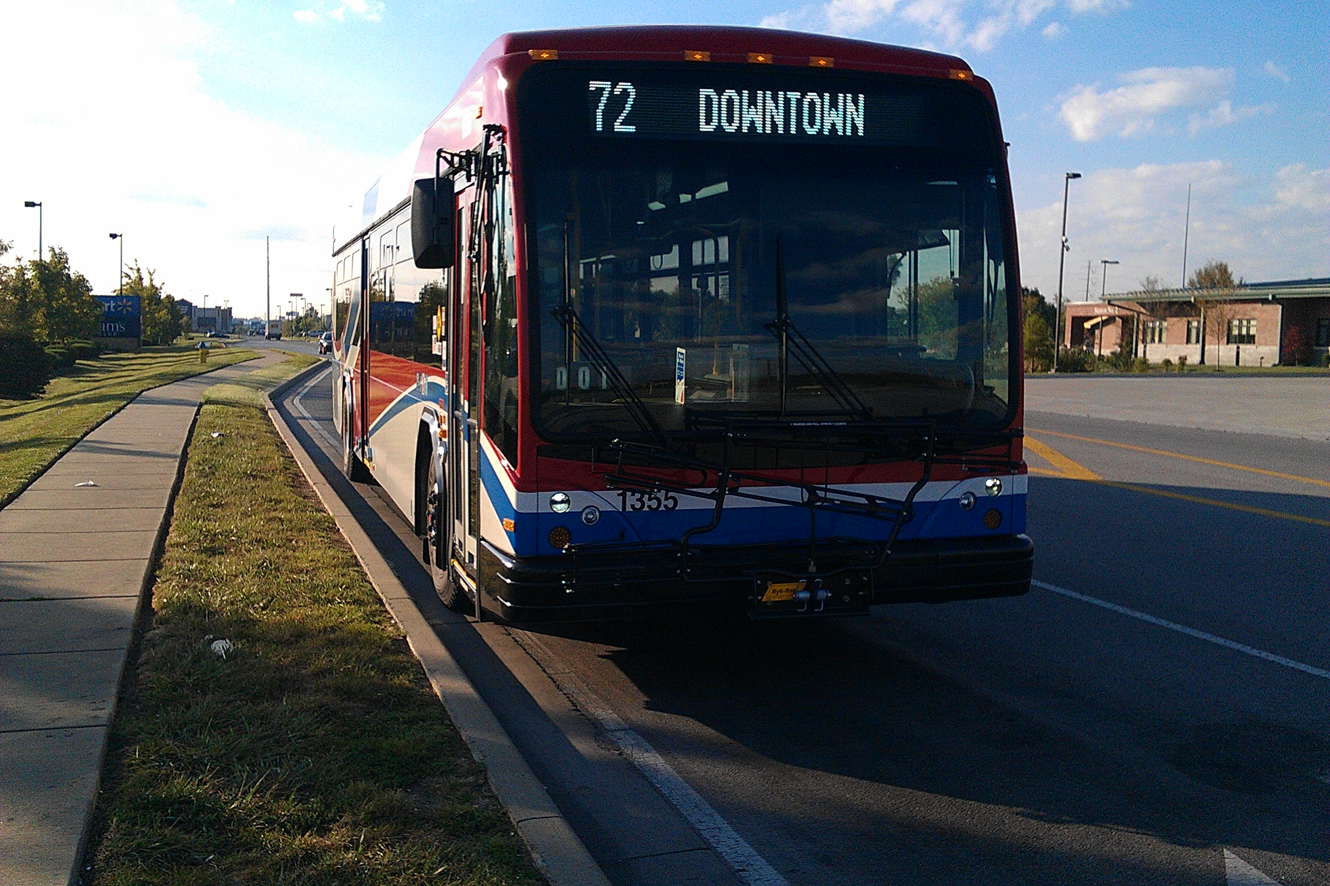 This is one of Transit Authority of River City's E-Tran commuter buses its fully loaded with WiFi and overhead storage compartments comfortable seating seats 40 and has passenger operated overhead lighting